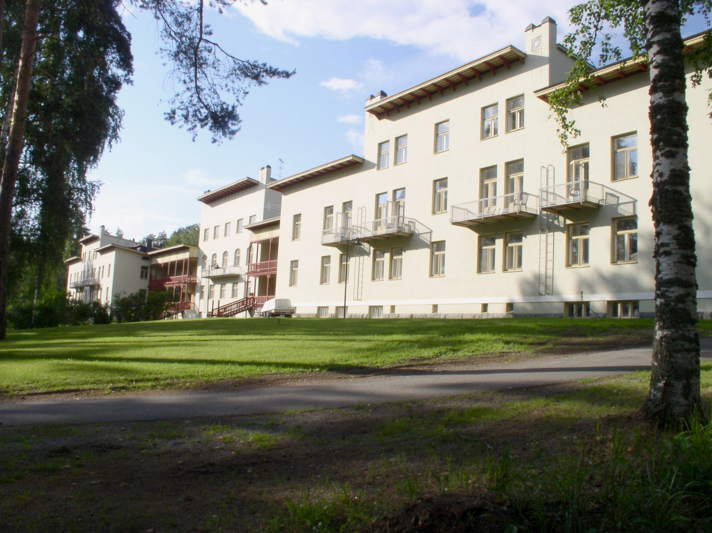 Takaharju Sanatorium (build 1903, now Kruunupuisto – Punkaharju rehabilitation centre) by architect Onni Törnqvist in Punkaharju, Finland.